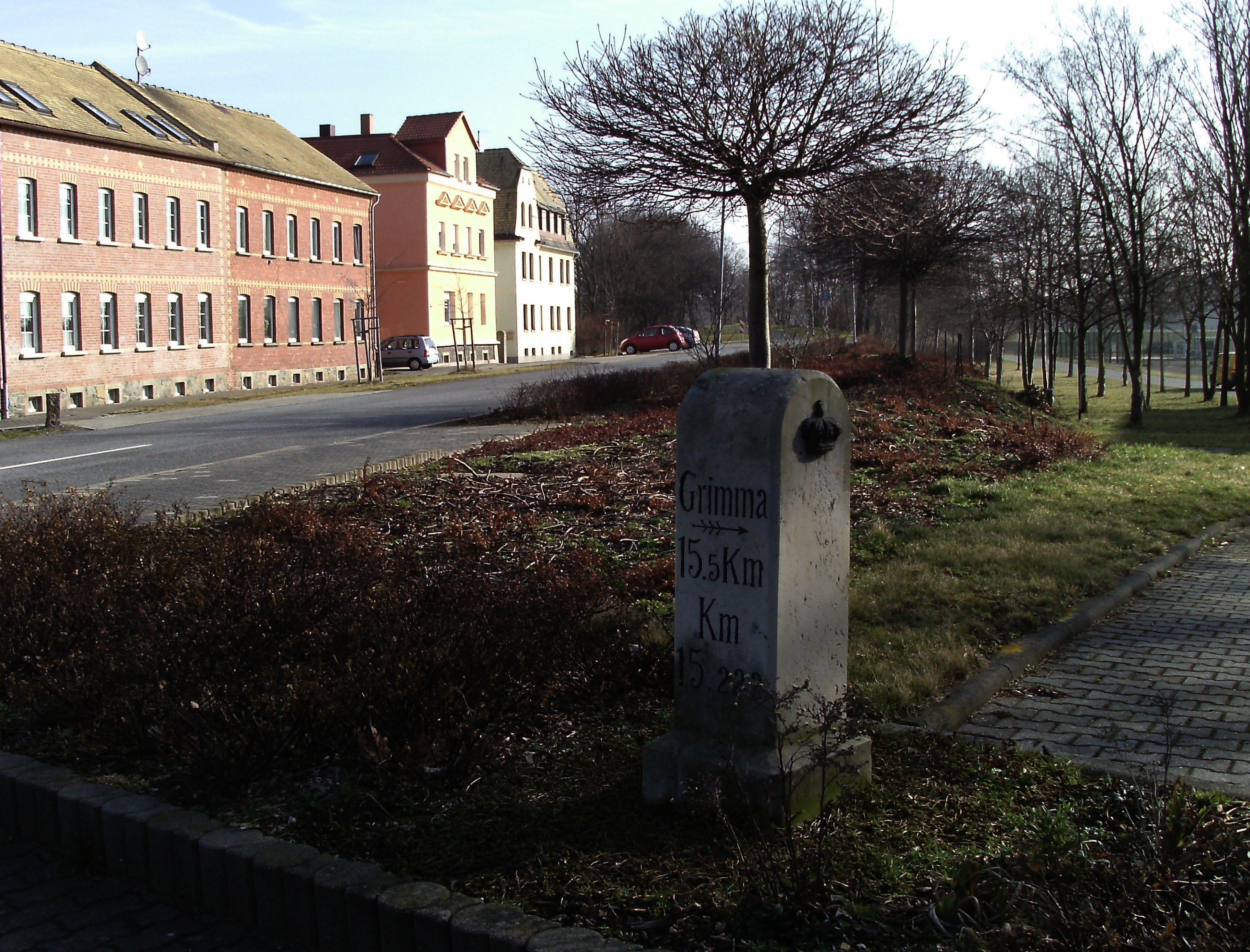 Royal Saxon milestone in Bennewitz (Leipzig district, Saxony)